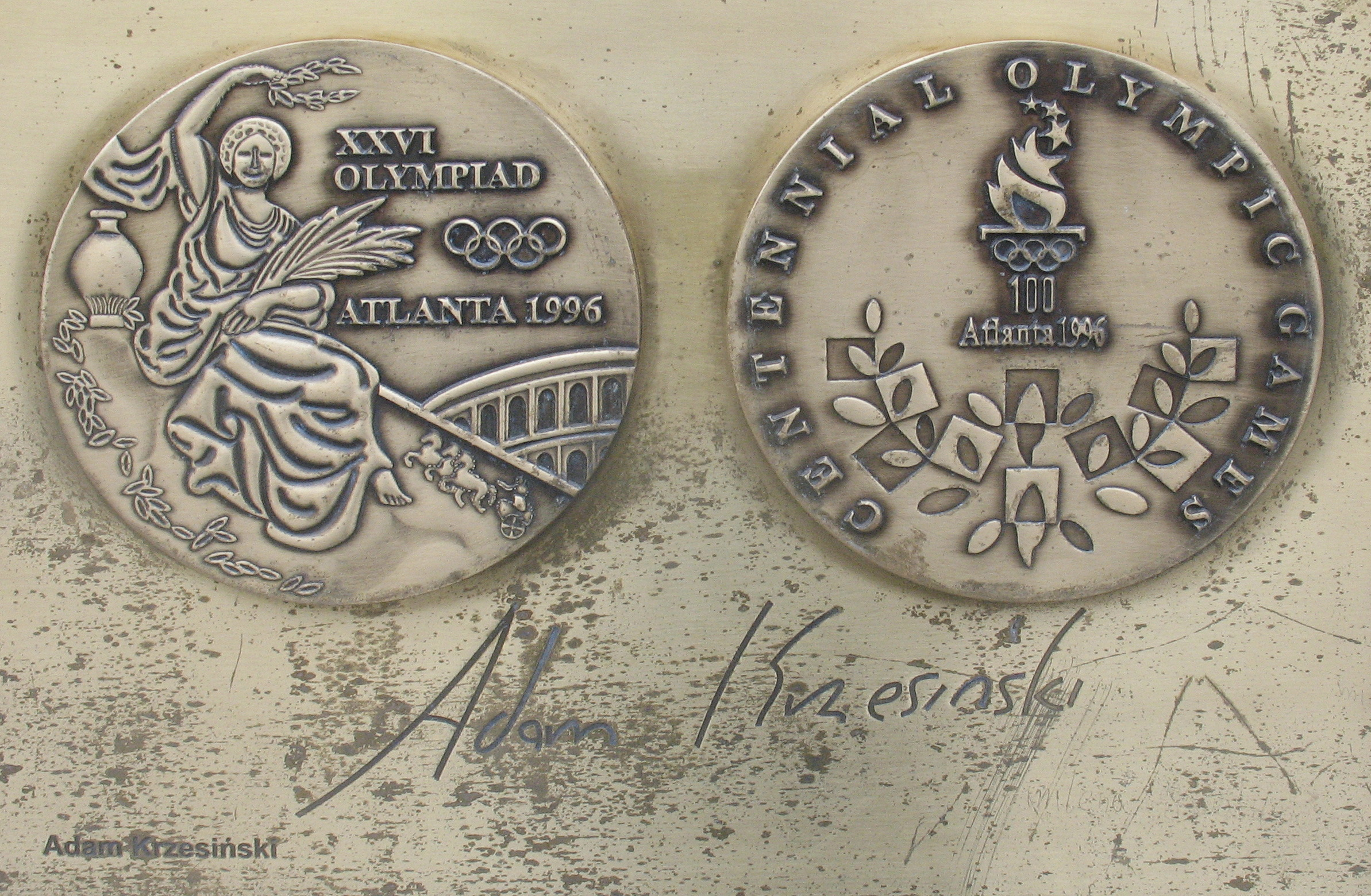 Adam Krzesinski medal & autograph in Avenue of Sport Stars Dziwnów